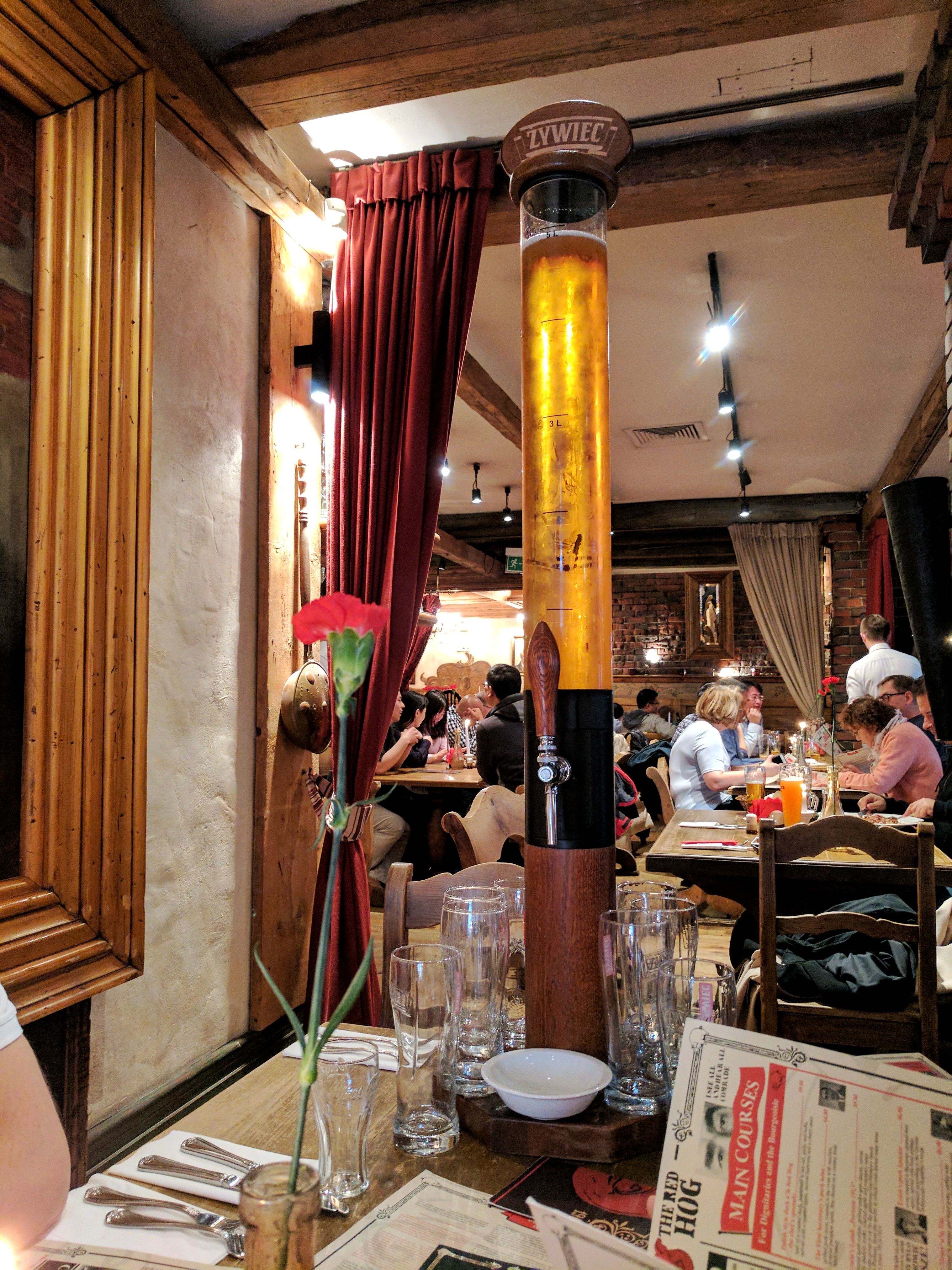 a beer tower in the Red Hog restaurant